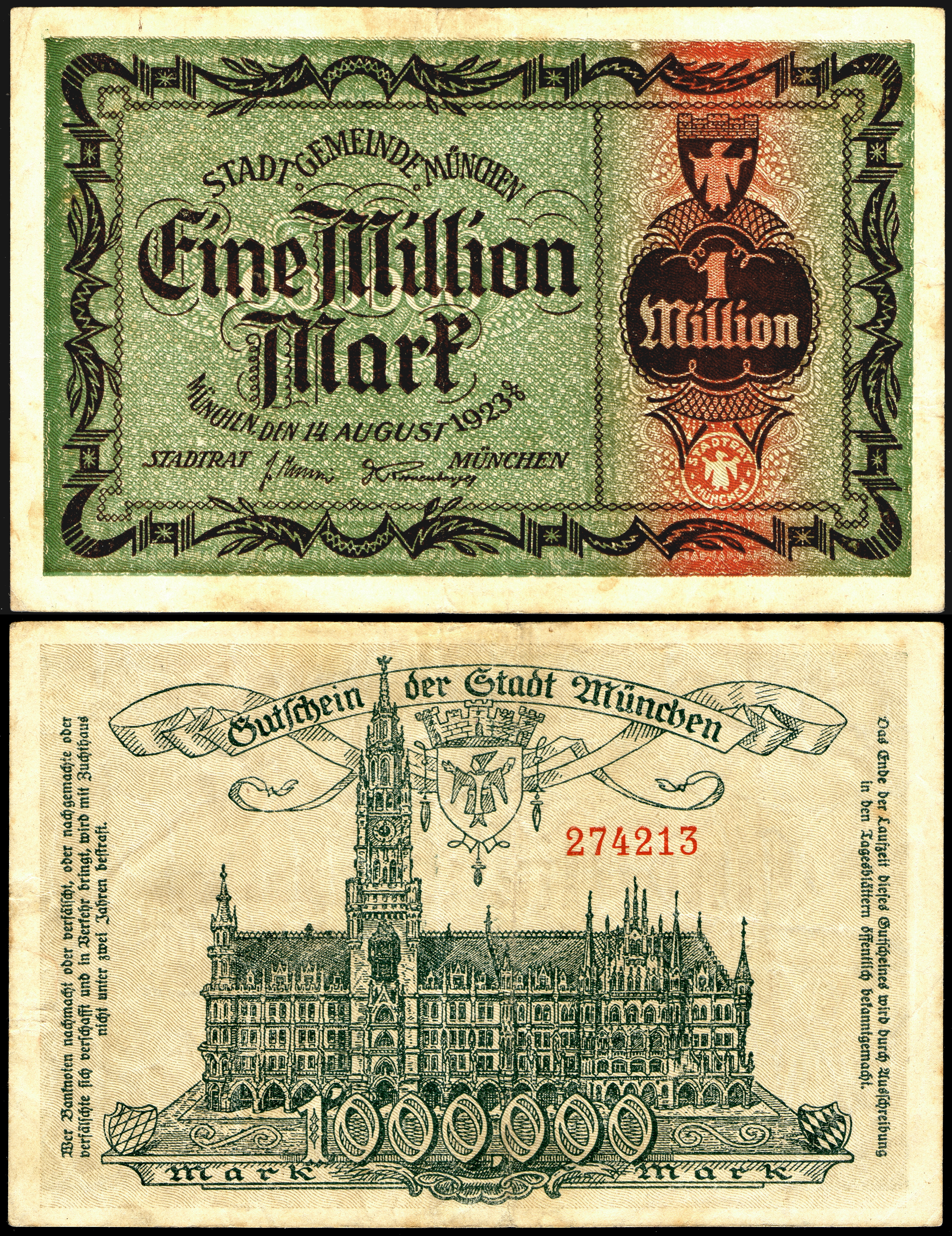 "Notgeld" banknote: one million Mark, Munich (1923), size: 91 mm x 140 mm.